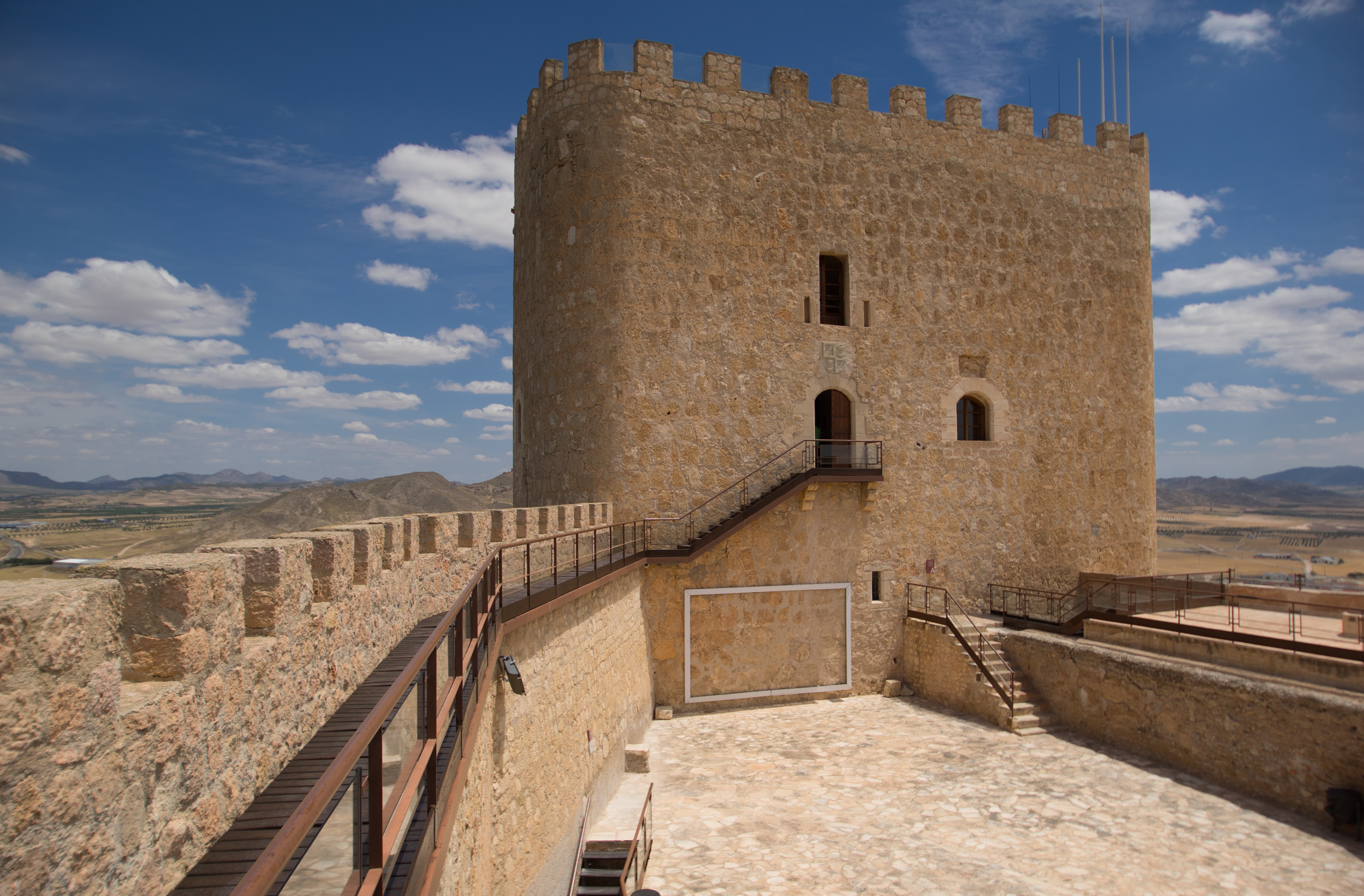 Main Tower. Jumiilla Castle